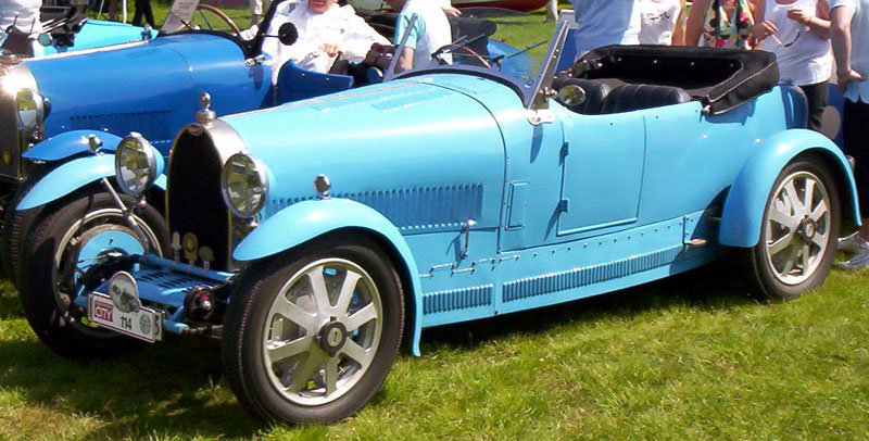 Bugatti Type 43 Grand Sport 1929